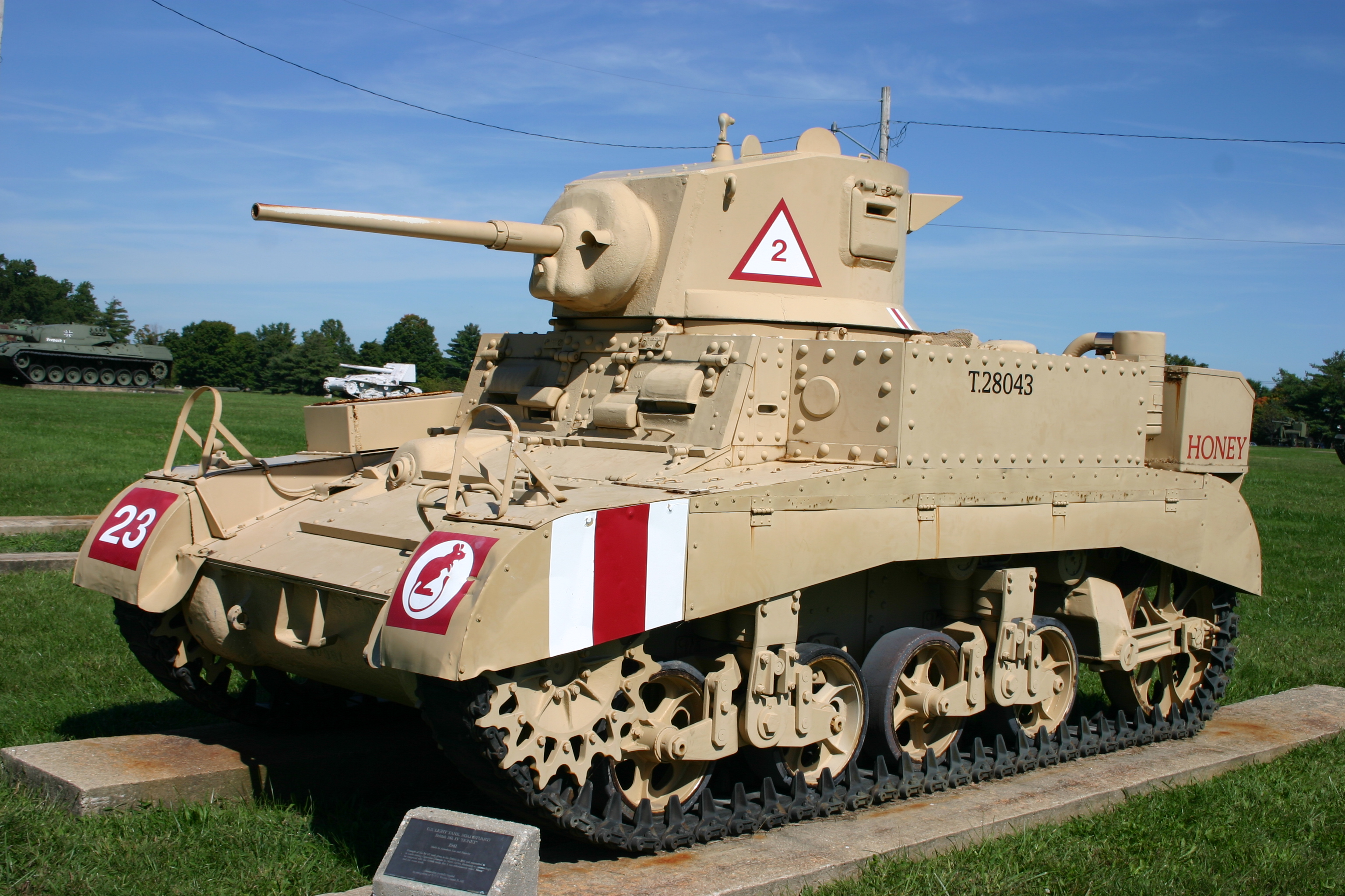 The M3 Stuart, officially Light Tank, M3, was an American light tank of World War II. It was supplied to British and other Commonwealth forces under lend-lease prior to the entry of the U.S. into the war. Thereafter, it was used by U.S. and Allied forces until the end of the war.